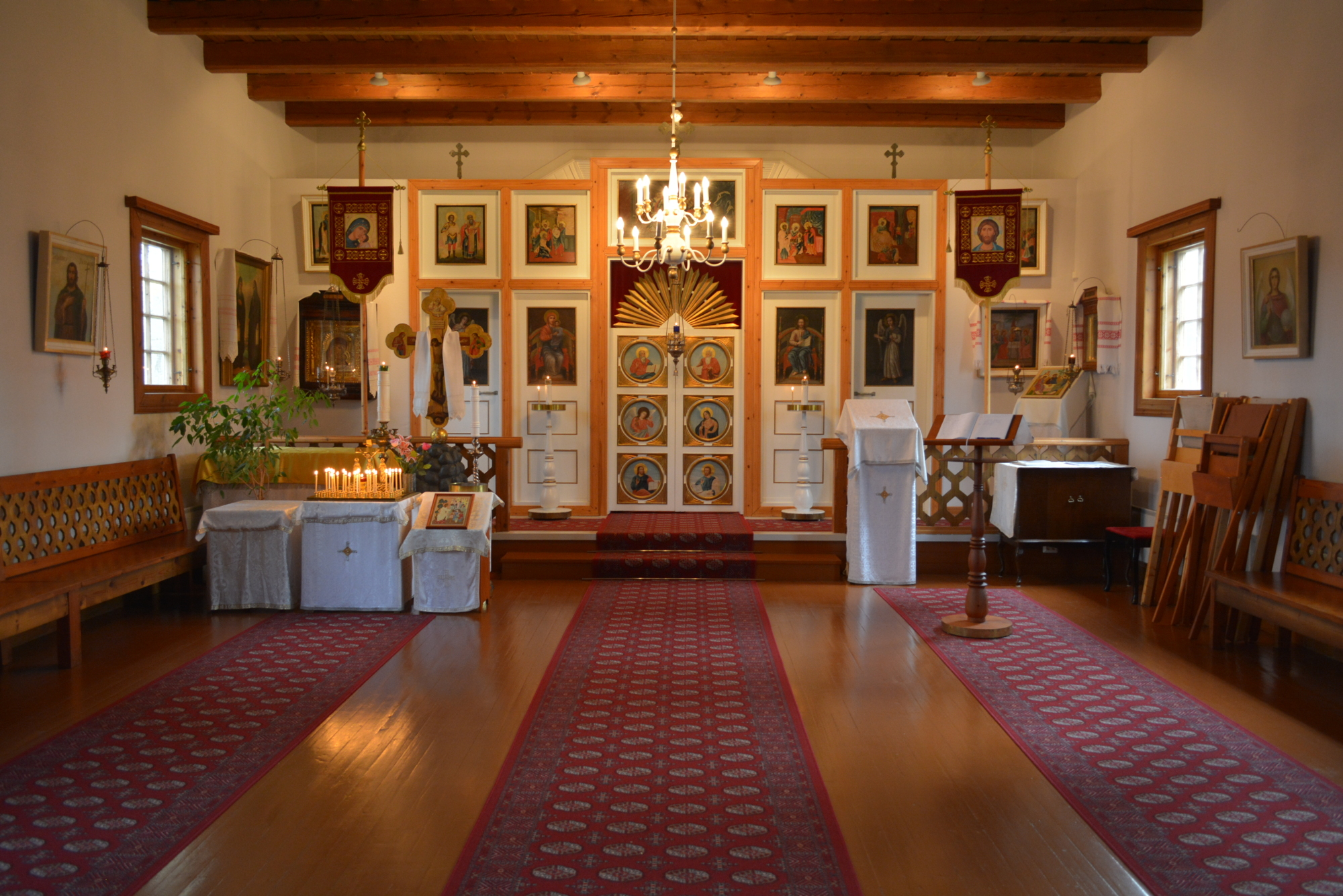 Orthodox Church of the Holy Spirit, Outokumpu, Finland